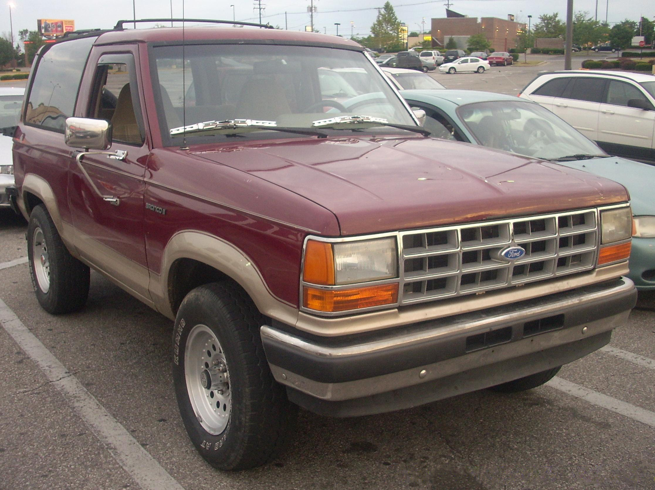 1989-1990 Ford Bronco II photographed in Lexington, Kentucky, USA.